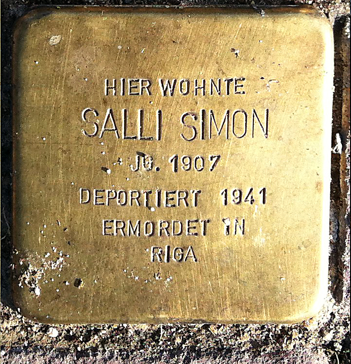 Stolperstein - Stumbling Stone in Nettetal, NRW, Germany Salli Simon